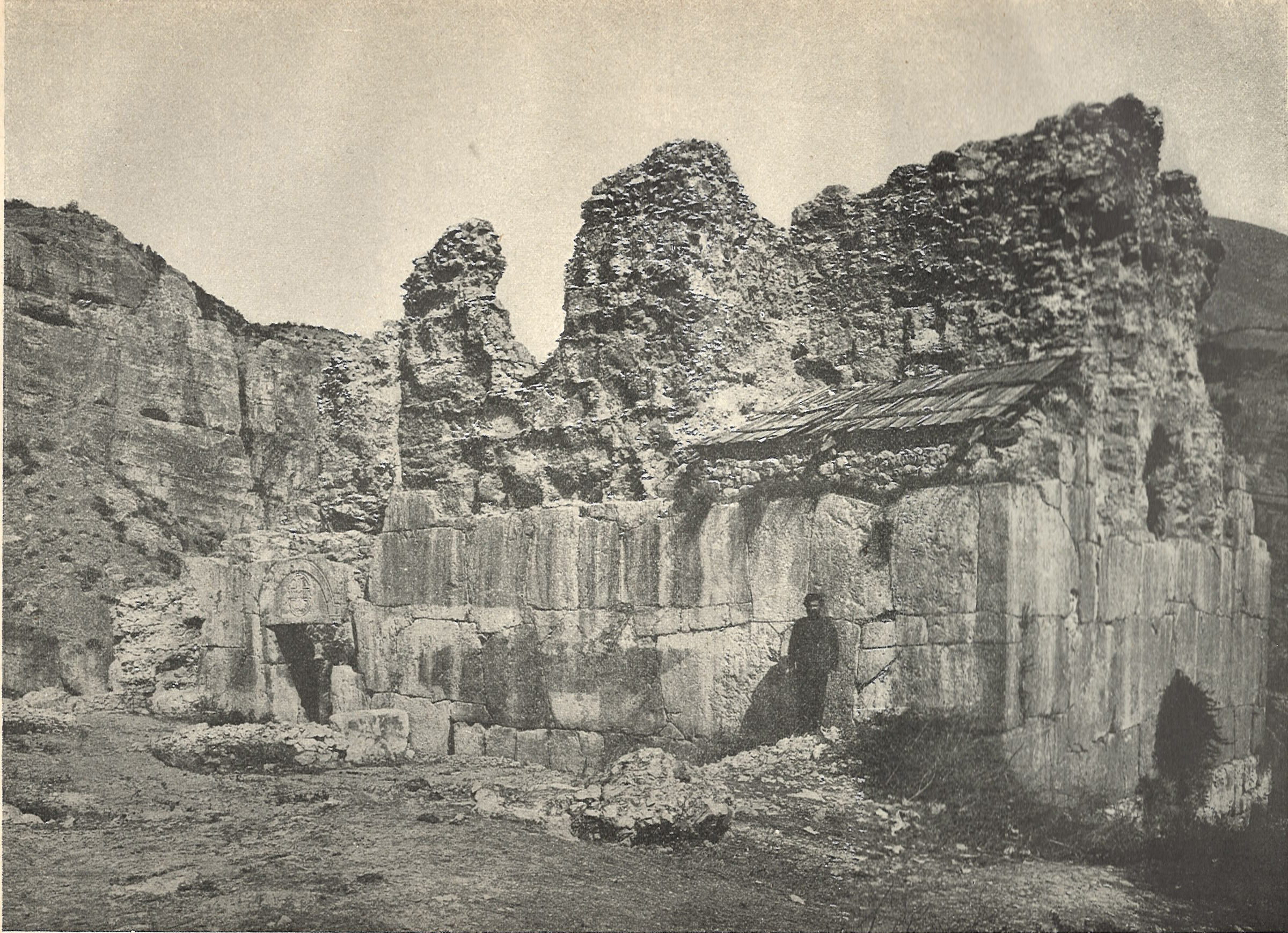 Ruins of church in Ardanuç as viewed from south-east. From Nicholas Marr's dairy of his travels to Shavsheti and Klarjeti (1911).